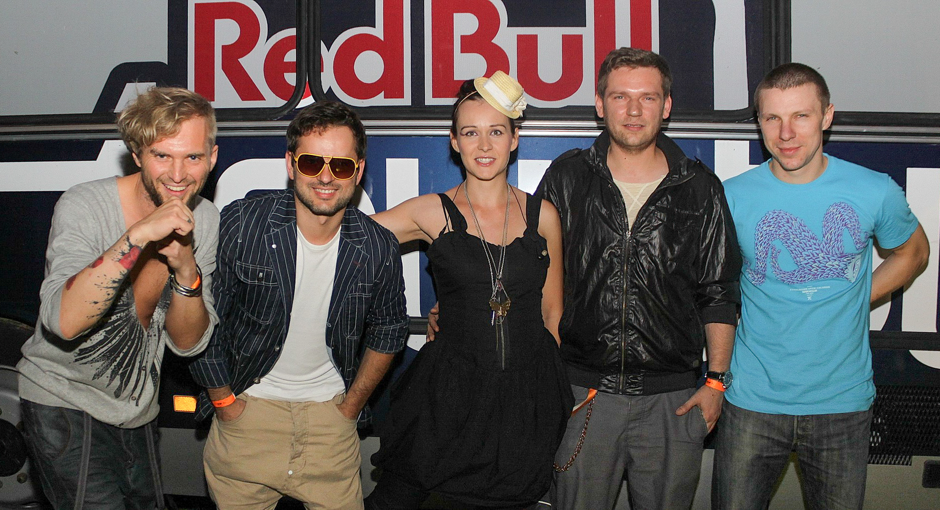 Sofa & Organek (2011)